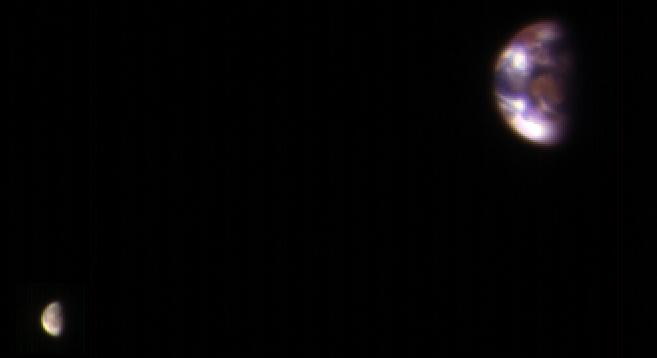 This composite image of Earth and its moon, as seen from Mars, combines the best Earth image with the best moon image from four sets of images acquired on Nov. 20, 2016, by the High Resolution Imaging Science Experiment (HiRISE) camera on NASA's Mars Reconnaissance Orbiter. Each was separately processed prior to combining them so that the moon is bright enough to see. The moon is much darker than Earth and would barely be visible at the same brightness scale as Earth. The combined view retains the correct sizes and positions of the two bodies relative to each other. HiRISE takes images in three wavelength bands: infrared, red, and blue-green. These are displayed here as red, green, and blue, respectively. This is similar to Landsat images in which vegetation appears red. The reddish feature in the middle of the Earth image is Australia. Southeast Asia appears as the reddish area (due to vegetation) near the top; Antarctica is the bright blob at bottom-left. Other bright areas are clouds. These images were acquired for calibration of HiRISE data, since the spectral reflectance of the Moon's near side is very well known. When the component images were taken, Mars was about 127 million miles (205 million kilometers) from Earth. A previous HiRISE image of Earth and the moon is online at PIA10244. The University of Arizona, Tucson, operates HiRISE, which was built by Ball Aerospace & Technologies Corp., Boulder, Colo. NASA's Jet Propulsion Laboratory, a division of Caltech in Pasadena, California, manages the Mars Reconnaissance Orbiter Project for NASA's Science Mission Directorate, Washington.